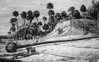 Shell Midden, Enterprise, FL; illustration from "Freshwater Shell Mounds of the St. Johns River, Florida," 1875, by Jeffries Wyman.